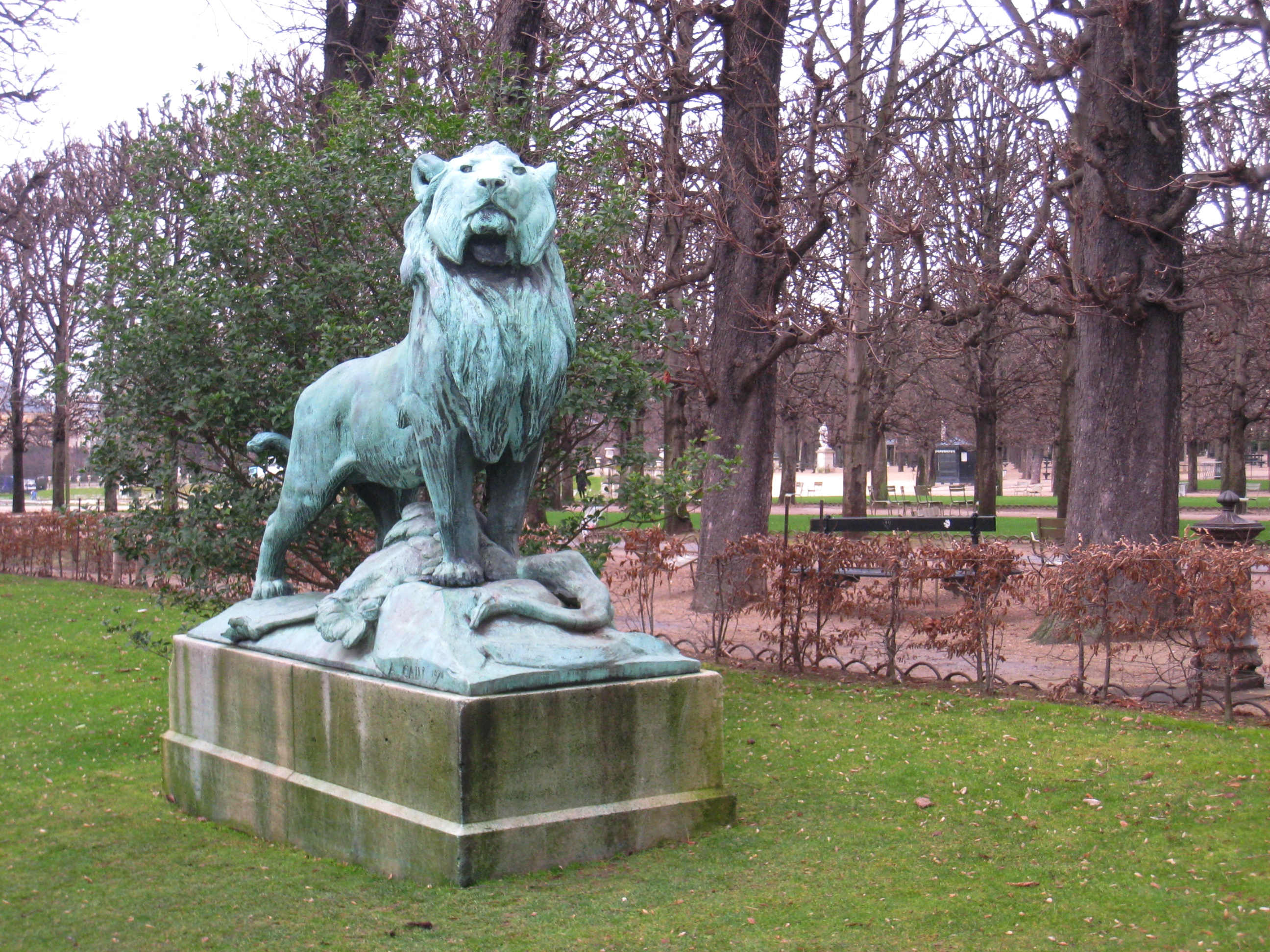 Jardin du Luxembourg, Paris, France - Bronze statue entitled "Le Lion de Nubie et sa Proie", by Auguste Nicholas Cain (French, 1822-1894), 1870. Copyright (if any) on this image has long since expired.